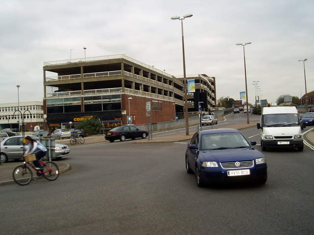 Worthing's white elephant This multi-storey car park at the junction of Teville Road (A2031) and Broadwater Road (A24),Worthing is due for redevelopment.